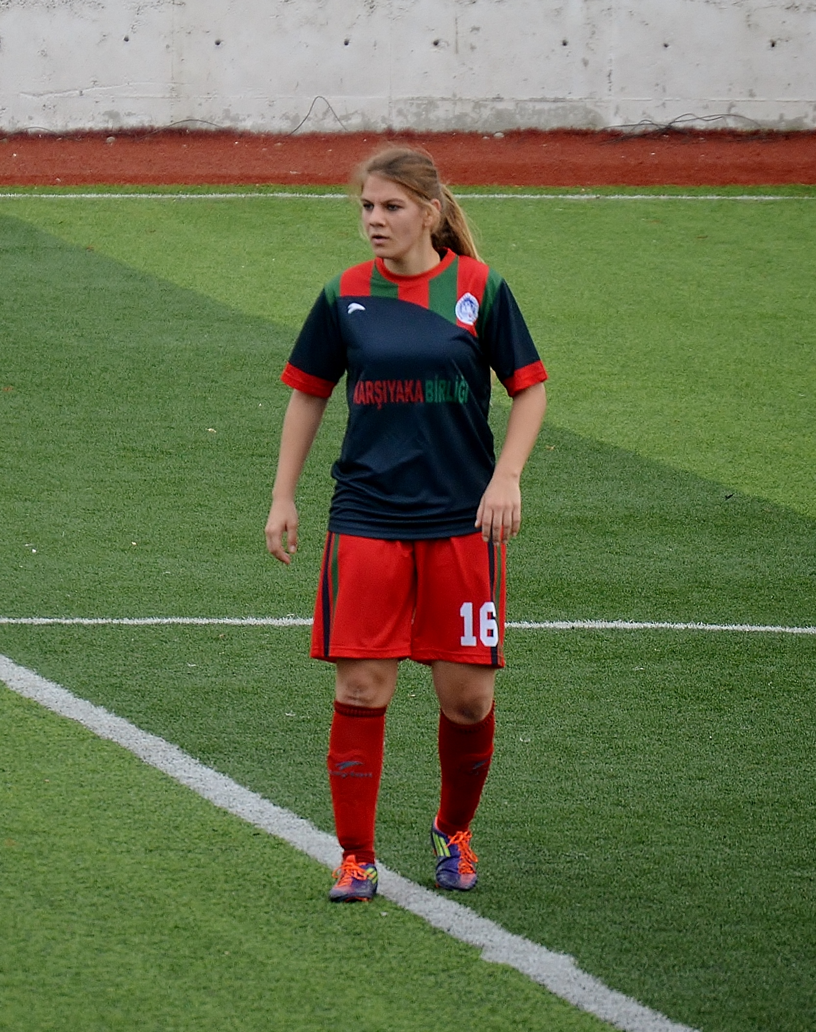 Pamuk Güllü Yılmaz playing for Karşıyaka BESEM Spor in the away match against Ataşehir Belediyespor (2014-15 season)